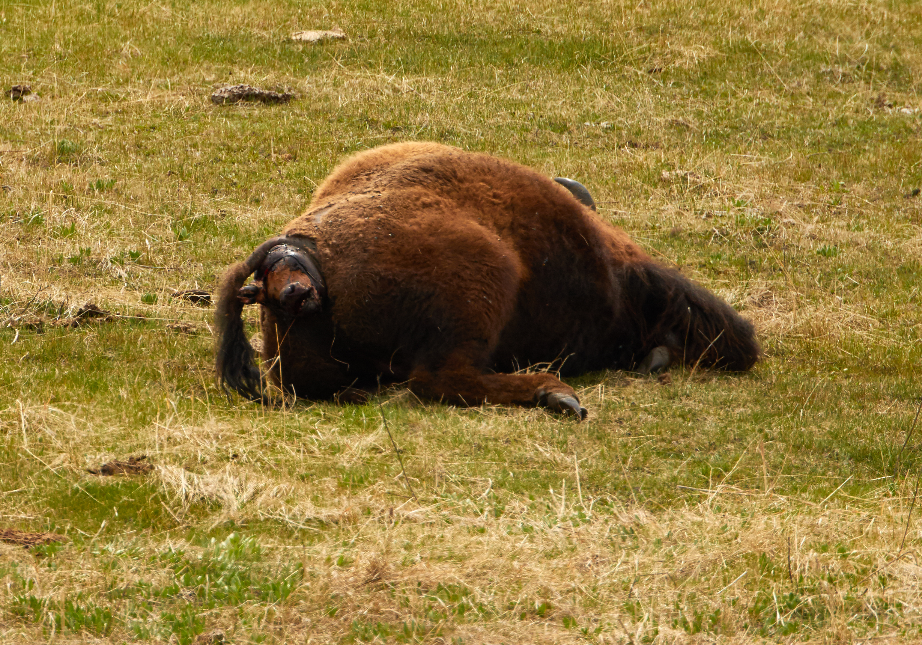 American bison (Bison bison) cow having a misscarriage in Yellowstone National Park, Wyoming, United States